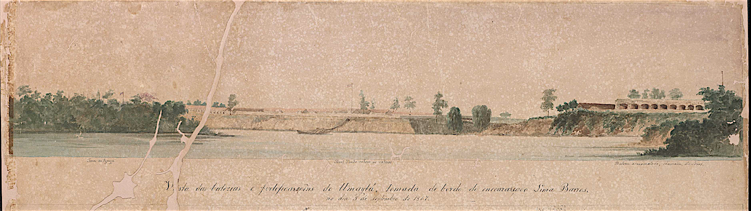 The fortress of Humaitá spied from the deck of the Brazilian ironclad Lima Barros, 5 September 1867.